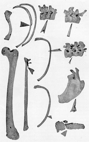 Bones of human skeletons pierced by arrowheads unearthed in an archaeological dig in 1895 in Staten Island, New York.